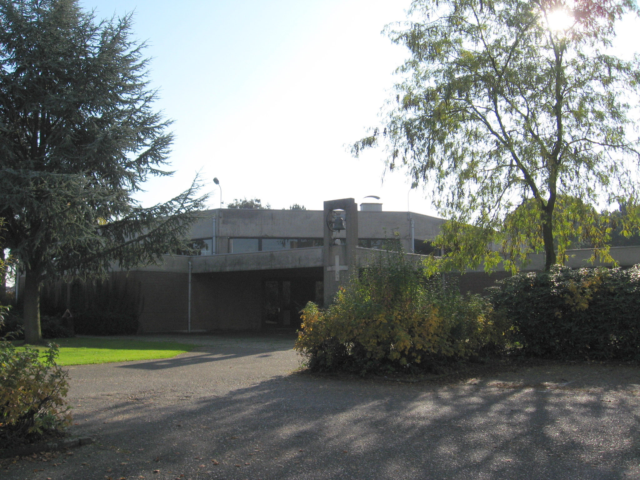 Church of Saint Francis of Assisi in Elsum, Geel, Antwerp, Belgium